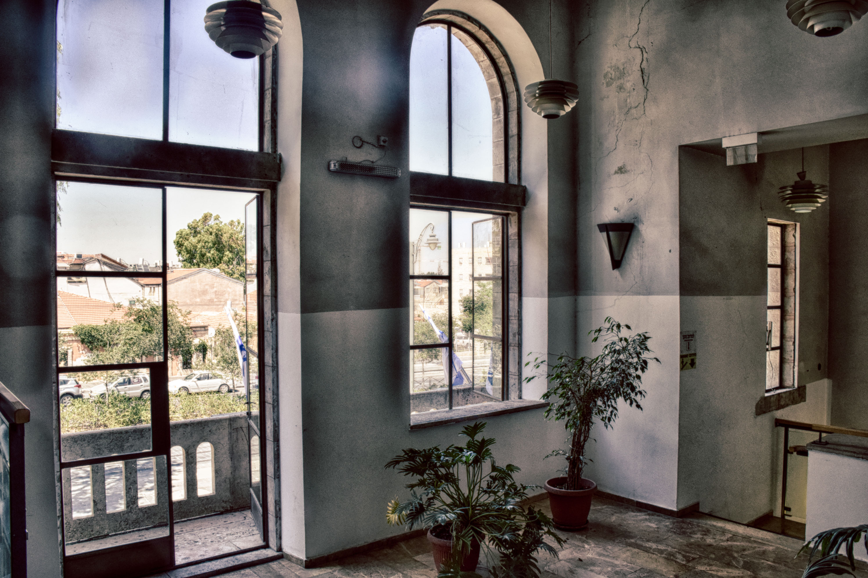 Israel Broadcasting service at Shaarei Tsedek Porch